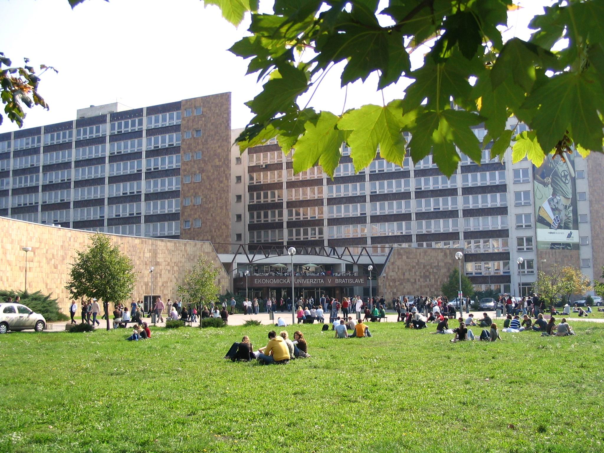 Main Building Hall of the University of Economics in Bratislava at Dolnozemská cesta 1, Bratislava